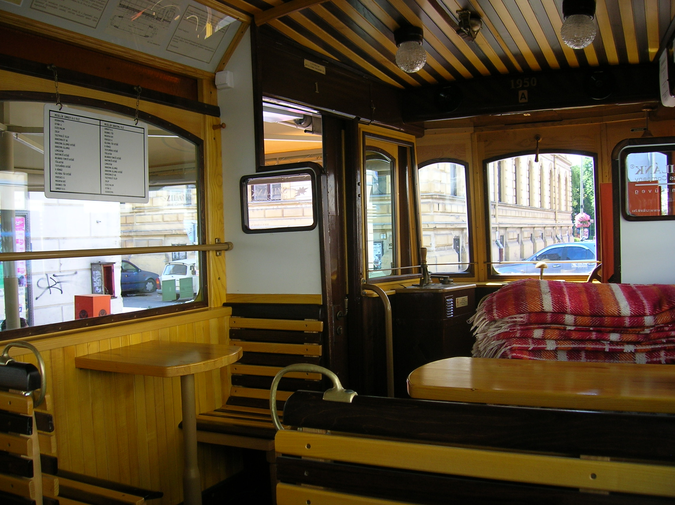 The café 7-es megálló (“Tram stop 7”) in Szeged, Hungary. Te café is inside a tram car, on a defucnt tram line.